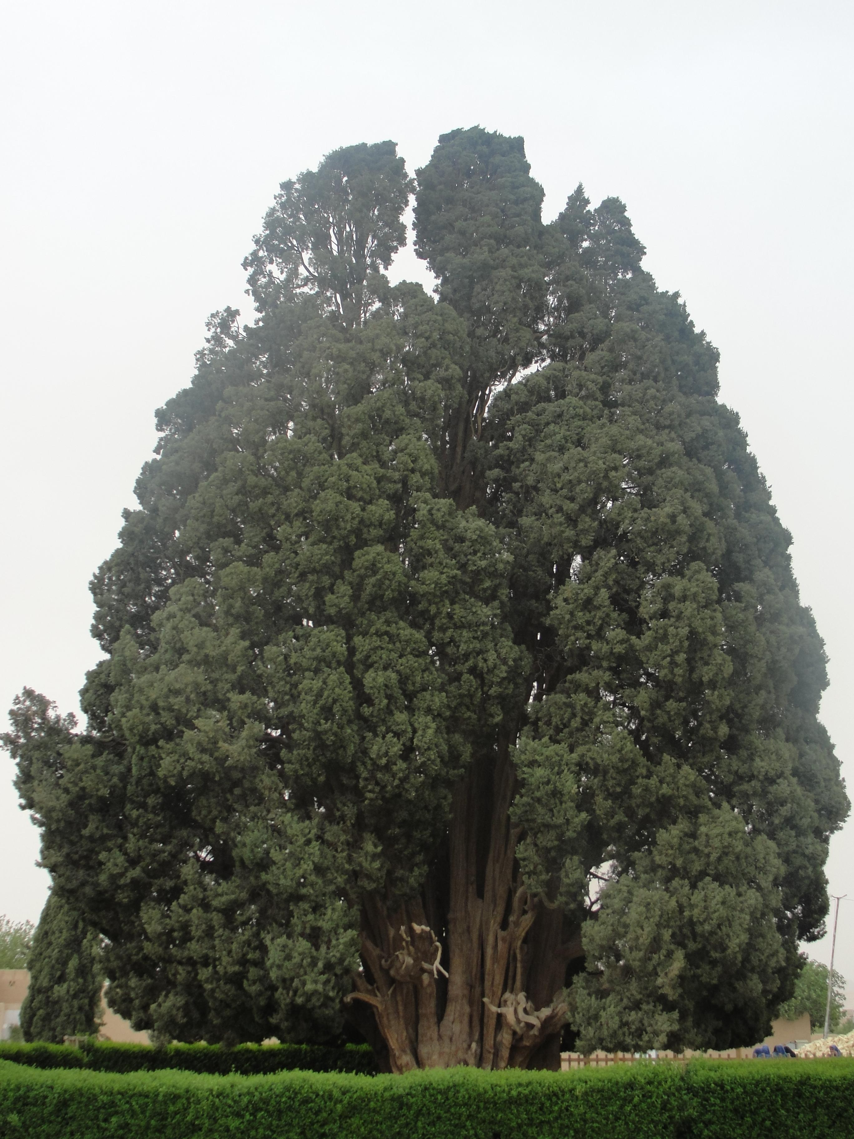 Cypress of Abar-Kuh